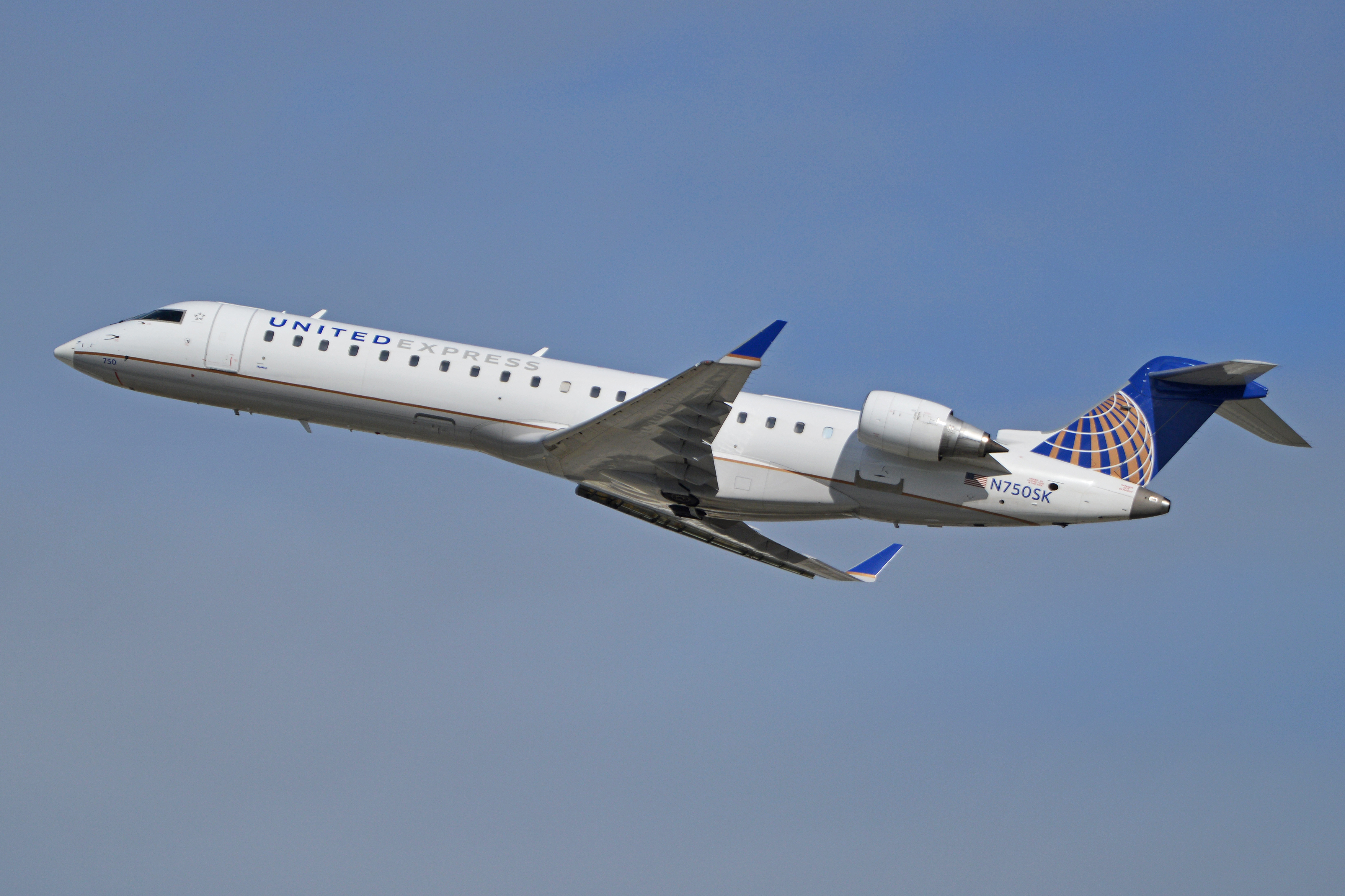 Operated by Skywest for United Express. c/n 10207. Built 2005. Seen departing LAX and taken from the Imperial Hill spotting location. Los Angeles, California, USA. 08-2-2014